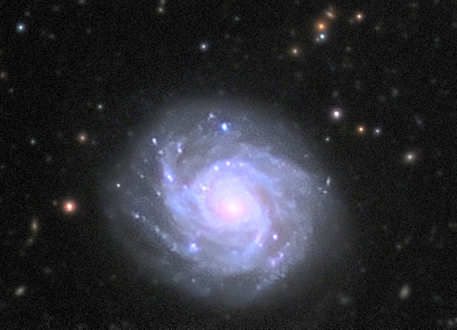 NGC 3512 spiral galaxy in 32 inch Schulman telescope